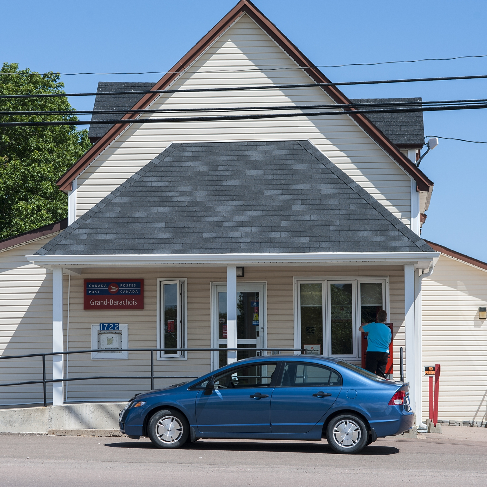 Federal post office in Grand Barachois, Westmorland County, New Brunswick, Canada